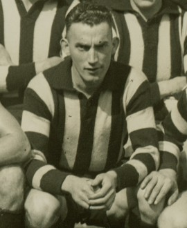 Photograph of Clem Morden in 1932